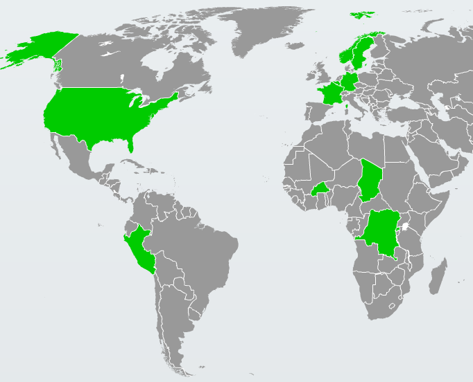 World map showing the countries where the names Roger or Rüdiger are popular. Green color means the name is among the 100 most popular names either in the population or among newborns. Map created using GunnMap and data from multiple sources. This map was created with GunnMapGunnMap was created by Arthur Gunn and is available, free, at and attribute by linking to Rank values used: Peru 6 Belgium 8 Chad 10 Congo, Democratic Republic of the 42 United States 50 Rwanda 54 Sweden 64 Norway 74 France 78 Germany 87 Burkina Faso 96